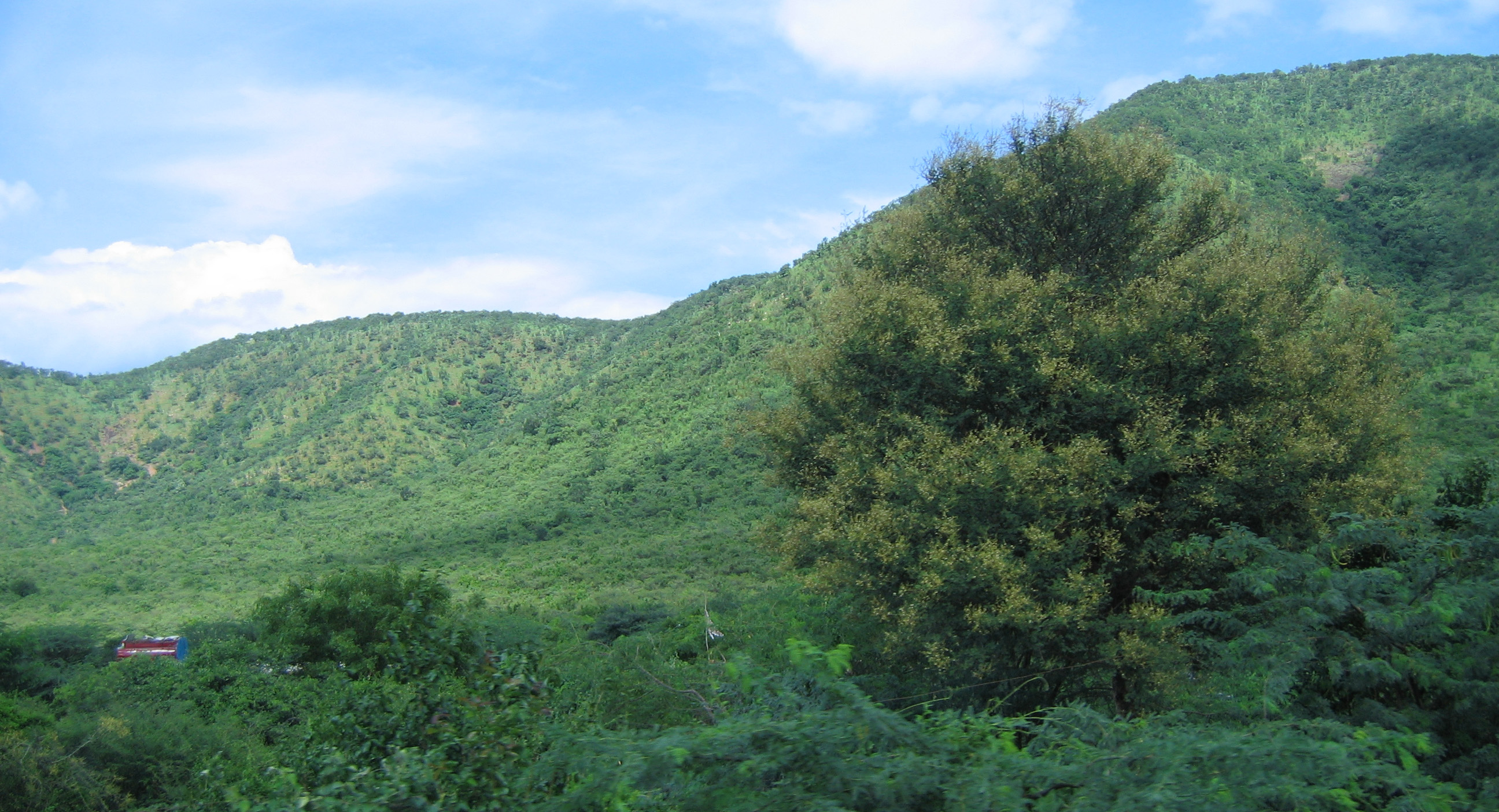 Andhra Pradesh - Landscapes from Andhra Pradesh, views from Indias South Central Railway